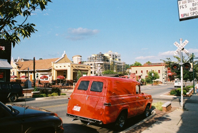 The Dickson Street railroad intersection in Fayetteville, Arkansas.)